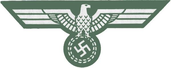 German army Wehrmachtsadler or "breast eagle"